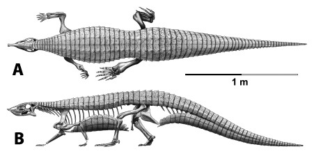 Skeletal reconstruction of an aetosaur (Stagonolepis robertsoni) showing the extensive carapace and associated armor in dorsal (A) and lateral (B) views.